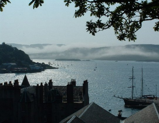 View from McCaig's Tower over Oban Bay looking towards Kerrera.